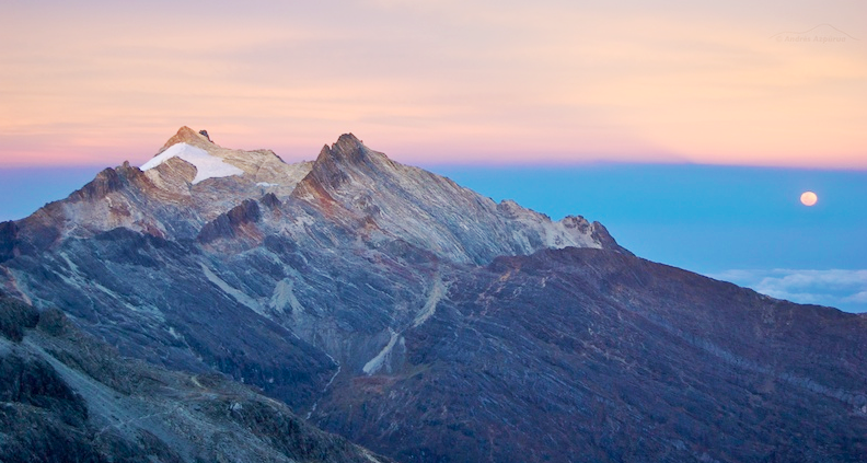 Mount Humboldt at sunset with the moon on its right; from near Mount Espejo in Venezuela (just a few meters away from the top)